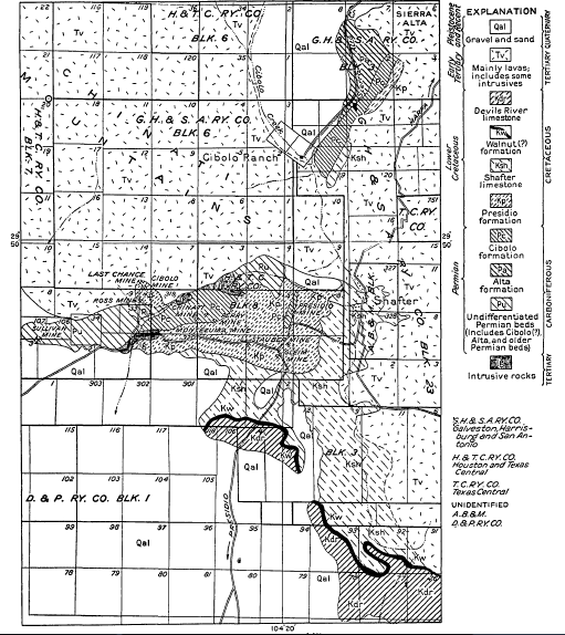 Shafter Region Geologic Map